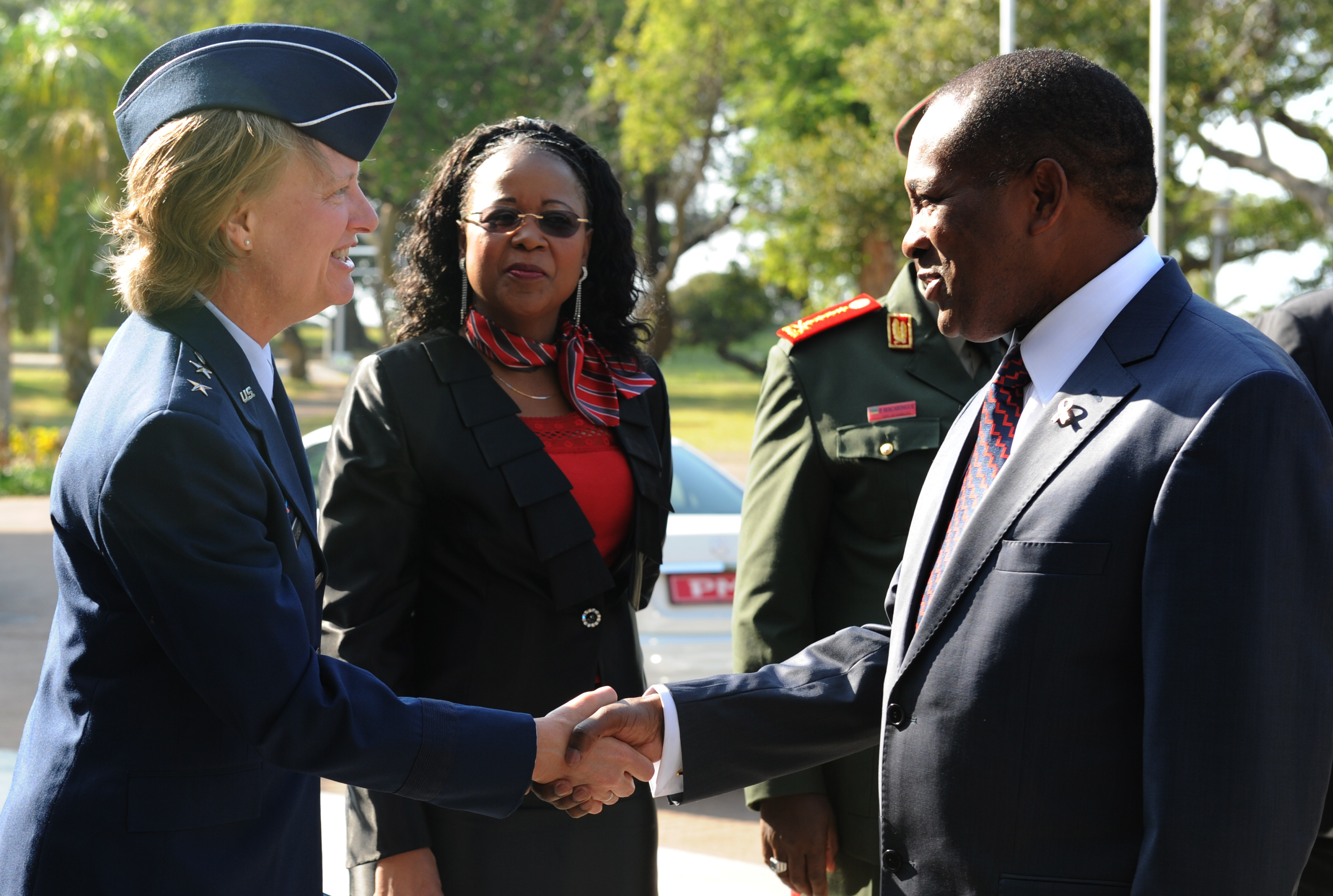 MAPUTO, Mozambique -- Maj. Gen. Barbara Faulkenberry, U.S. Africa Command logistics director, left, greets Prime Minister of Mozambique Aires Ali before the opening remarks of the 2012 International Military HIV/AIDS Conference here May 7. Military and civilian delegates and subject matter experts from 77 nations gathered for the 2012 International Military HIV/AIDS Conference in Maputo, Mozambique, May 7- 10, to share best practices in HIV prevention, care and treatment.. (U.S. Air Force photo/Staff Sgt. Benjamin Wilson)